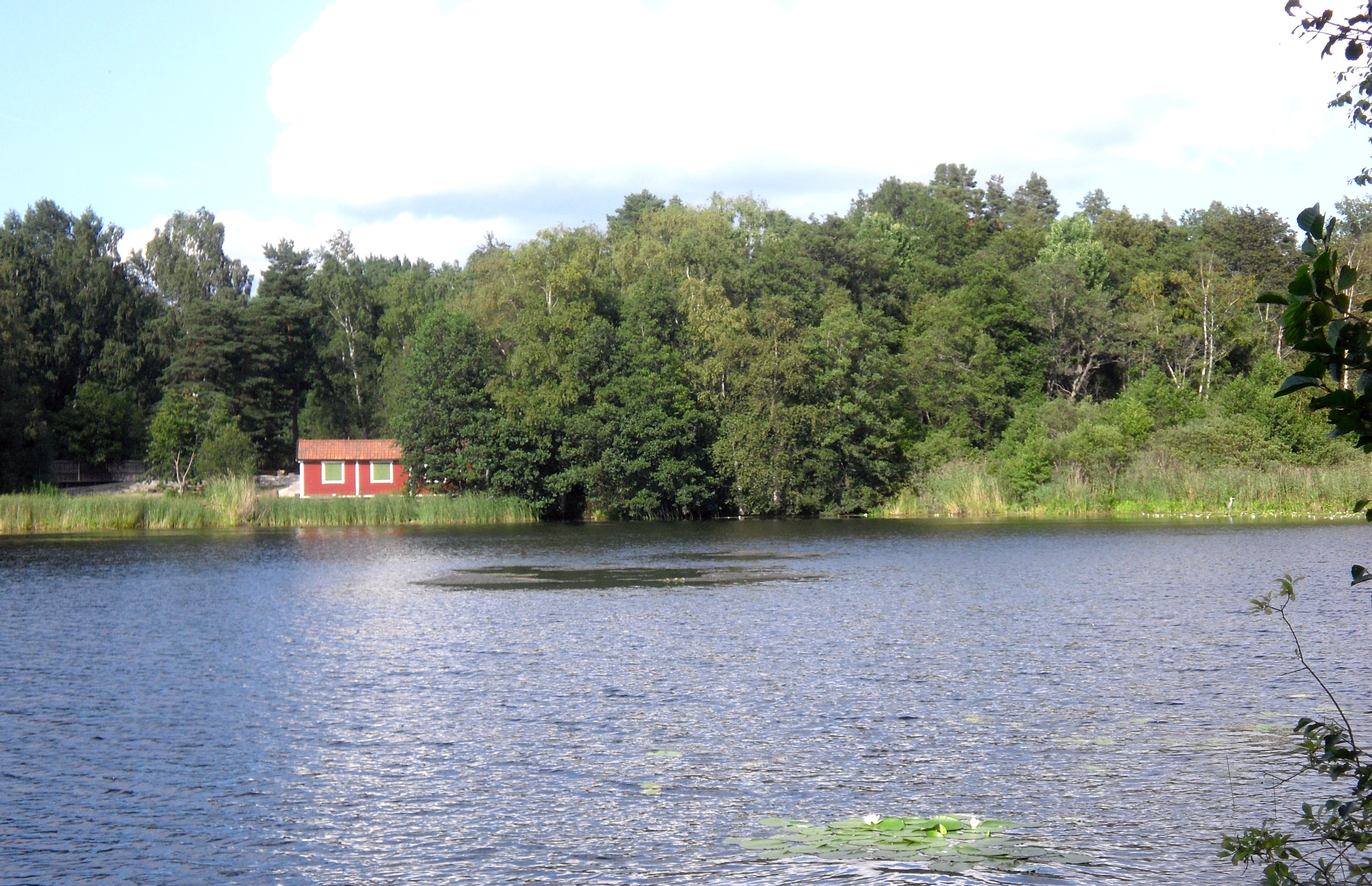 The small lake Ekebysjön in Djursholm, Danderyd, north of Stockholm, Sweden